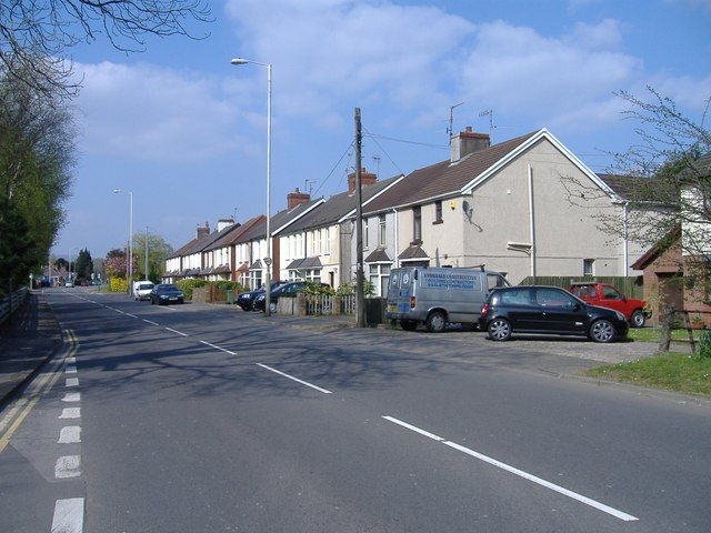 Avondale Road, Cwmbran